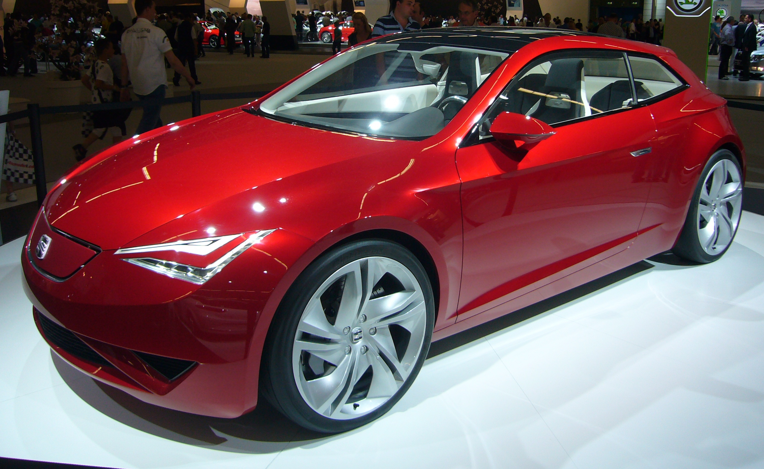 Seat IBe Concept at AutoRAI Amsterdam 2011